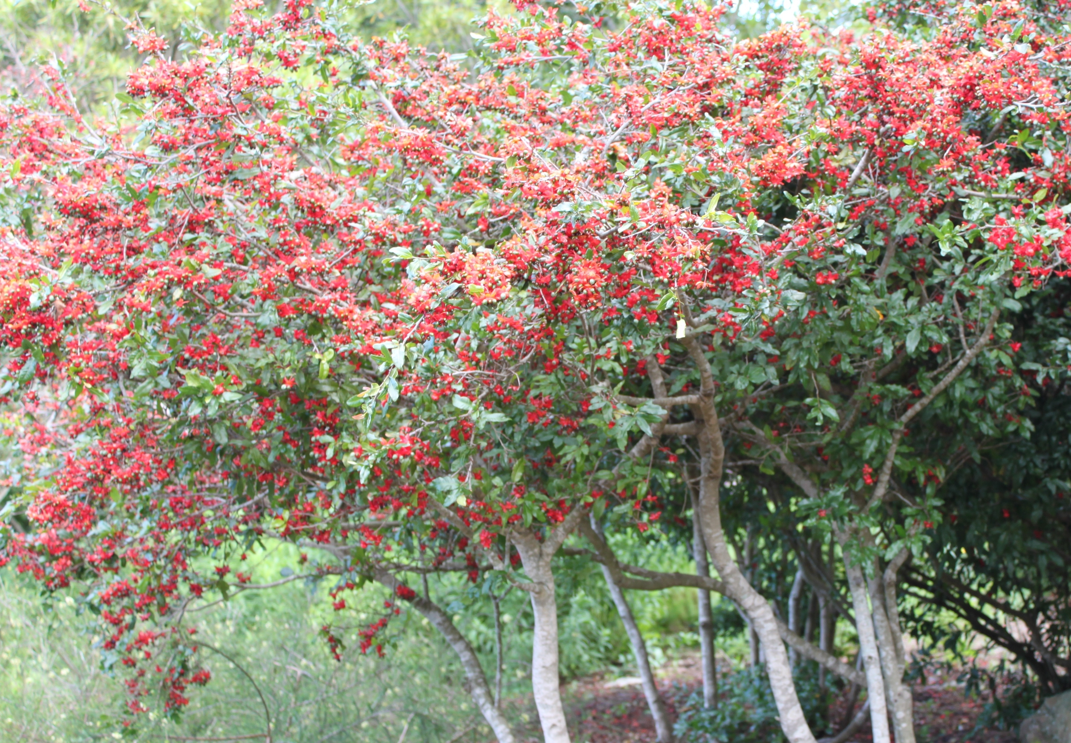 Ochna serrulata bushes with unripe fruits. Cape Town.